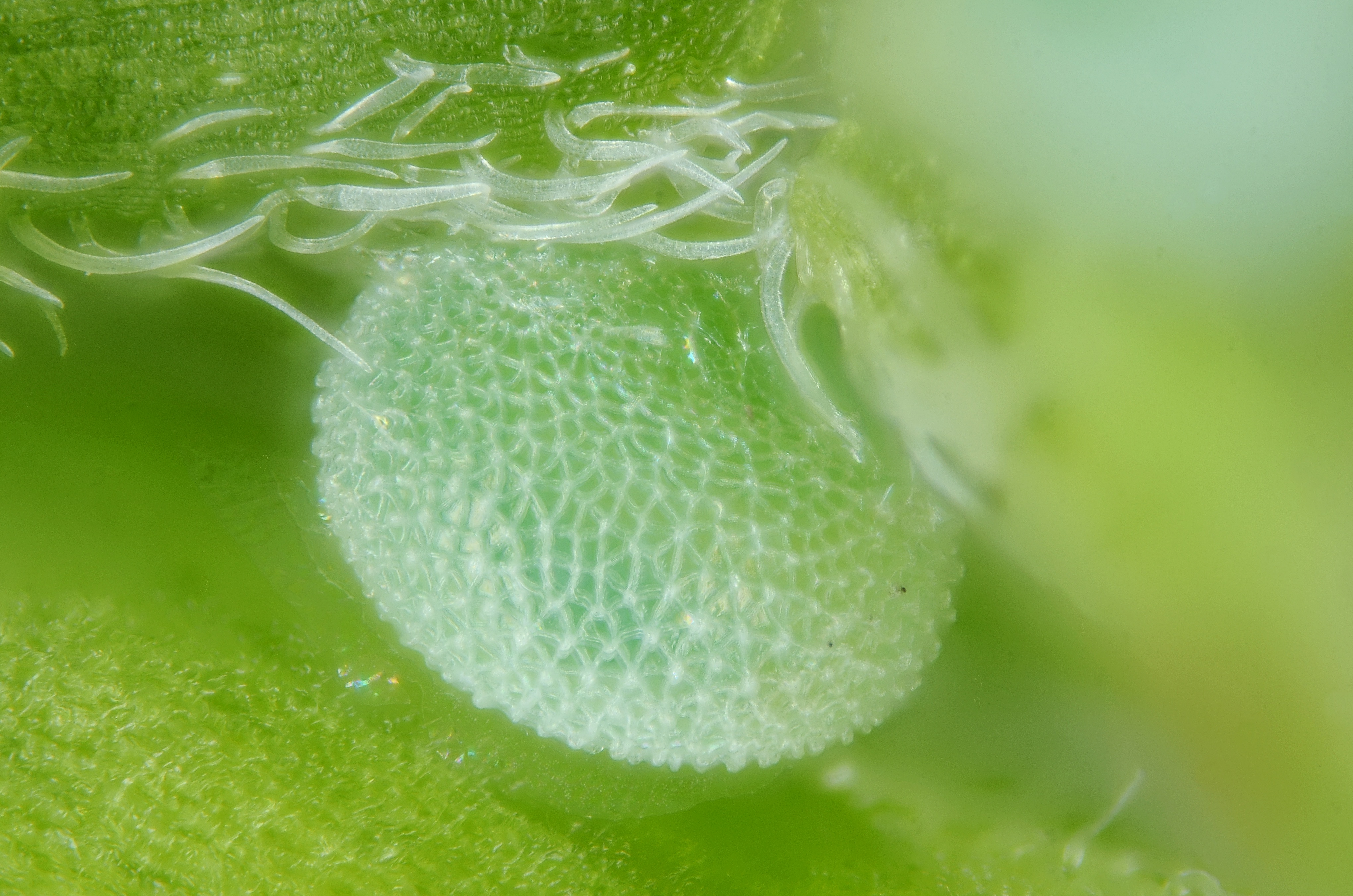 The egg of the butterfly Callophrys rubi (Green Hairstreak) on an inflorescence of Genista anglica Scale : egg width ~0.5 mm Technical settings : - focus stack of 71 images - microscope objective (Nikon achromatic 10x 160/0.25) on bellow